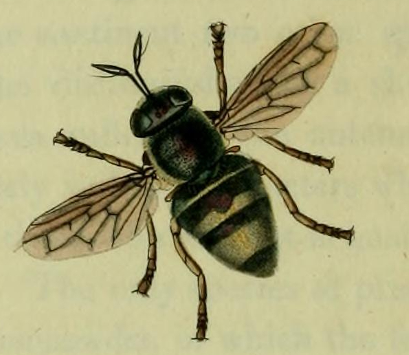 Microdon apiformis, valid synonym : Microdon mutabilis (Bee-like Hover-fly). Since 2002, and with the black scutellum, it is impossible to say if it's Microdon mutabilis or the new species Microdon myrmicae